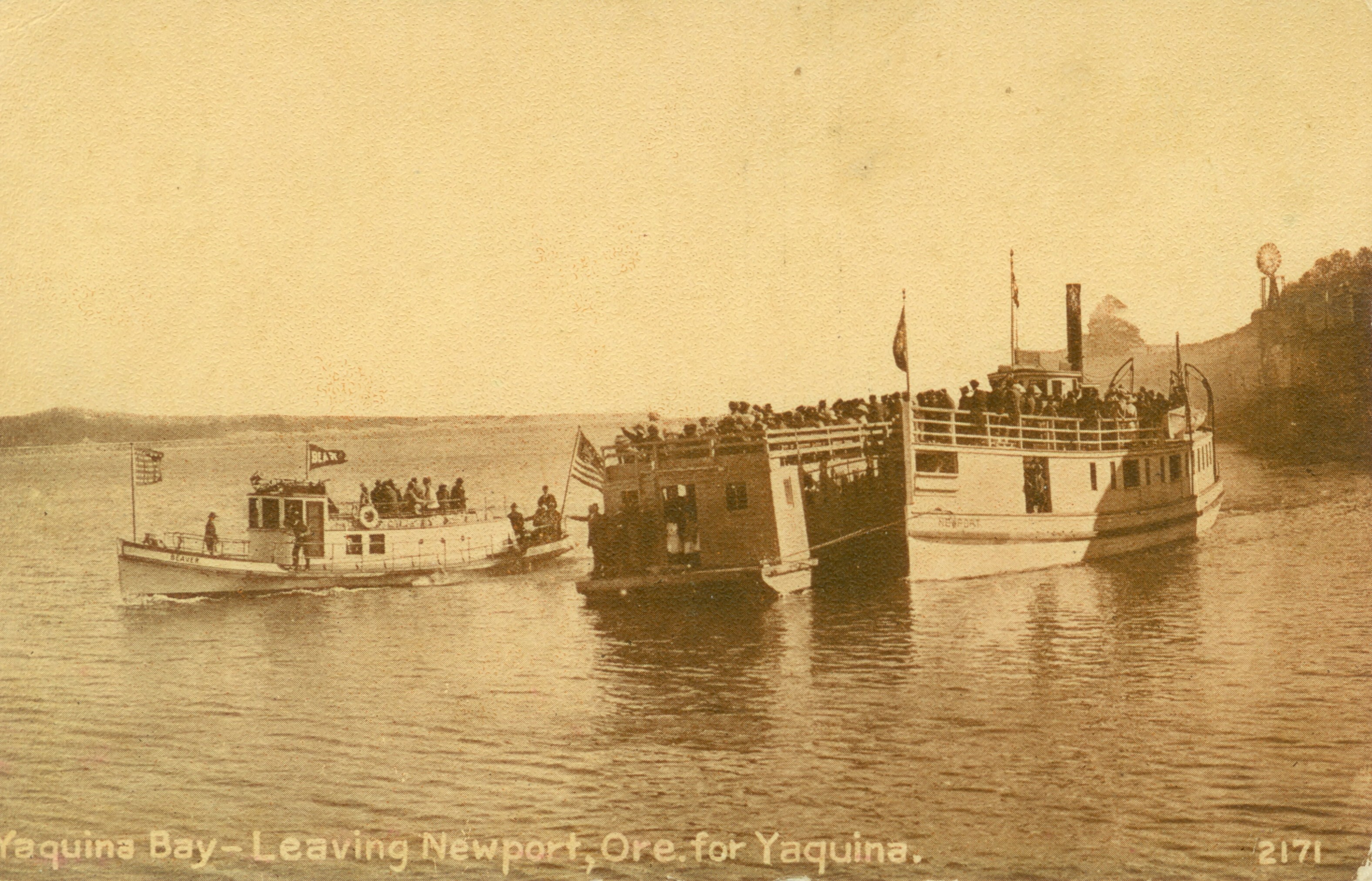 Scanned from an old photo postcard. Divided back, no white border, based on this, the image appears to have been first published somewhere between March 1, 1907 and 1915. Image shows the launch Beaver, apparently gasoline-powered, on the left, with the steam propeller Newport on the right, with a passenger barge lashed on.